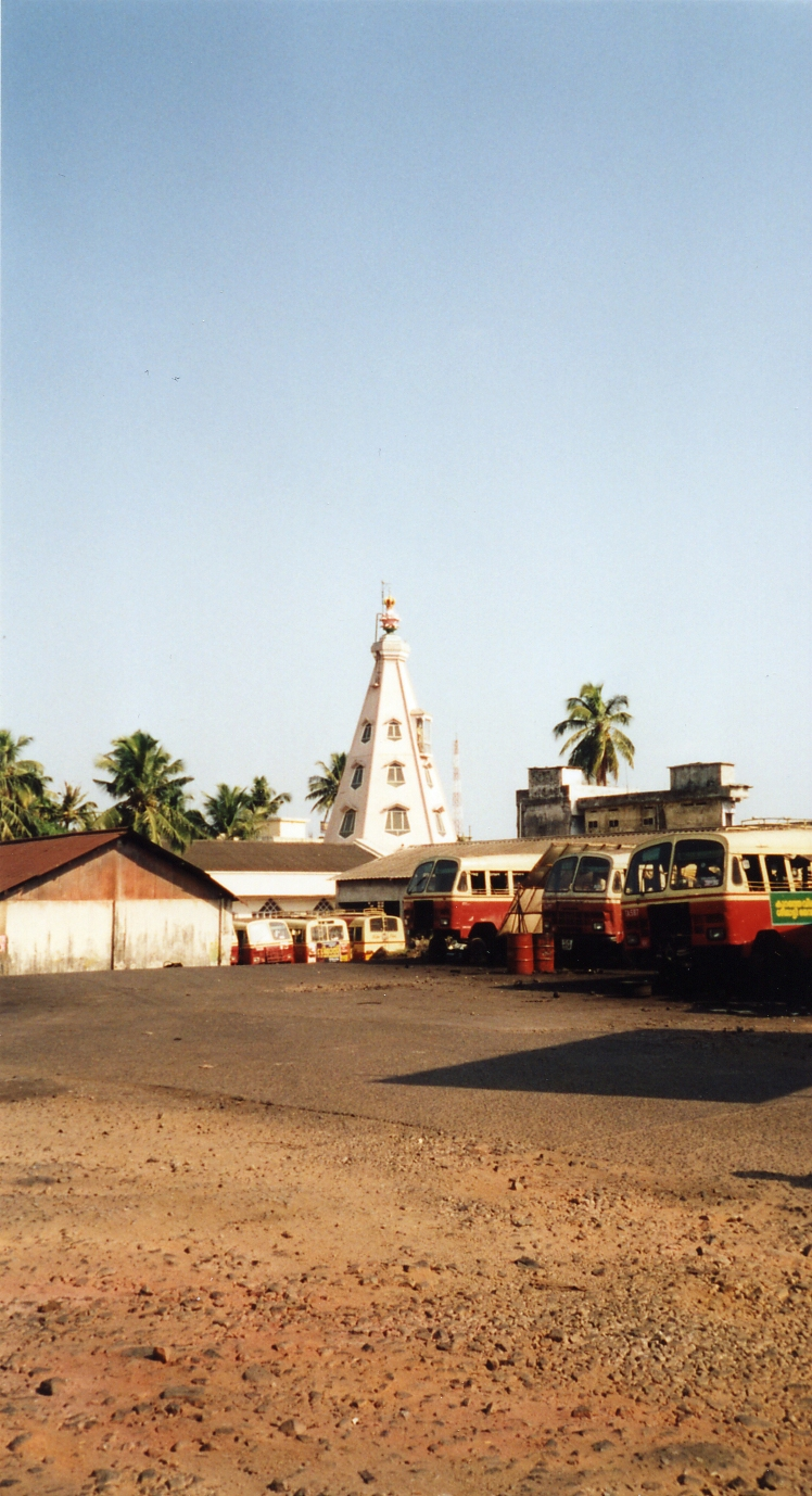 Photo: Soman